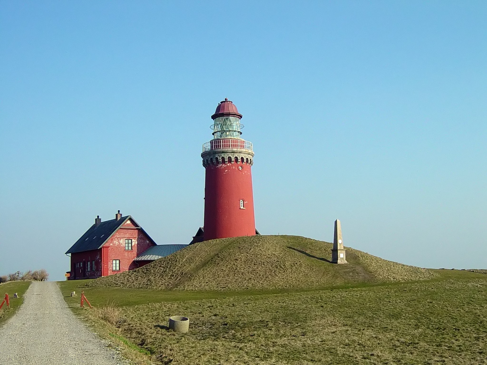 Bovbjerg Lighthouse on the west coast of Jutland in Denmark